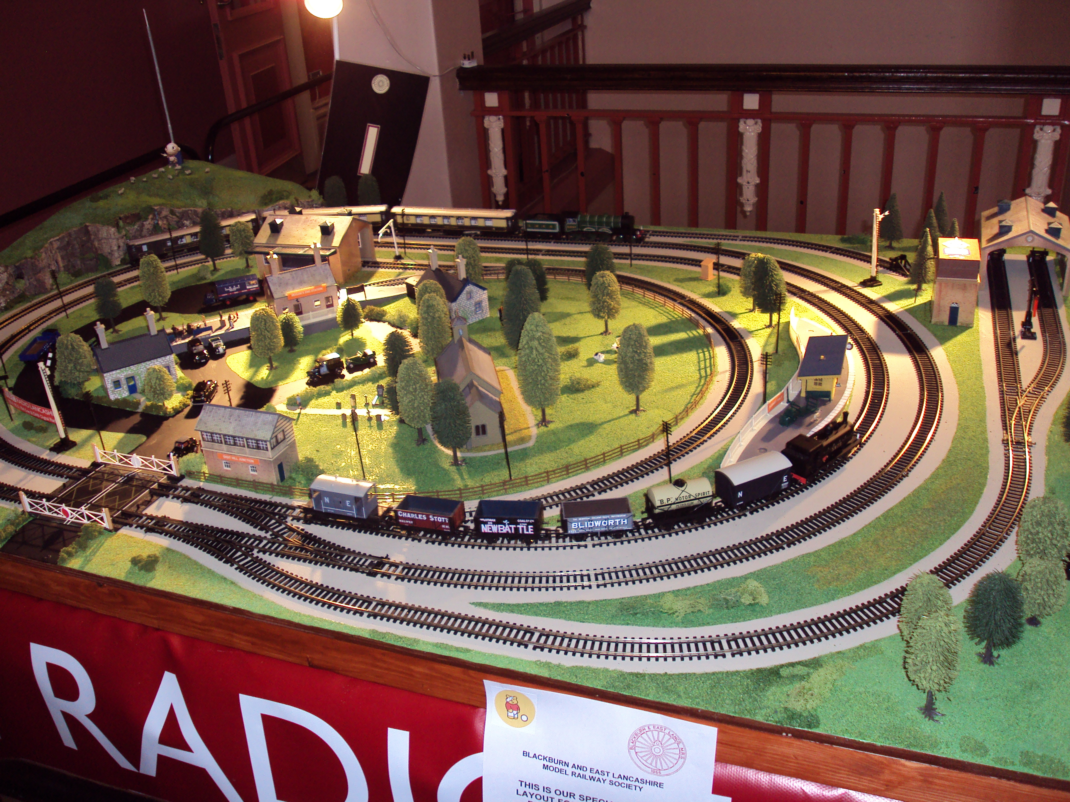 Photo taken at the 44th annual exhibition of the Blackburn & East Lancs Model Railway Society held in October 2009 at King Georges Hall, Northgate, Blackburn, Lancashire, England.